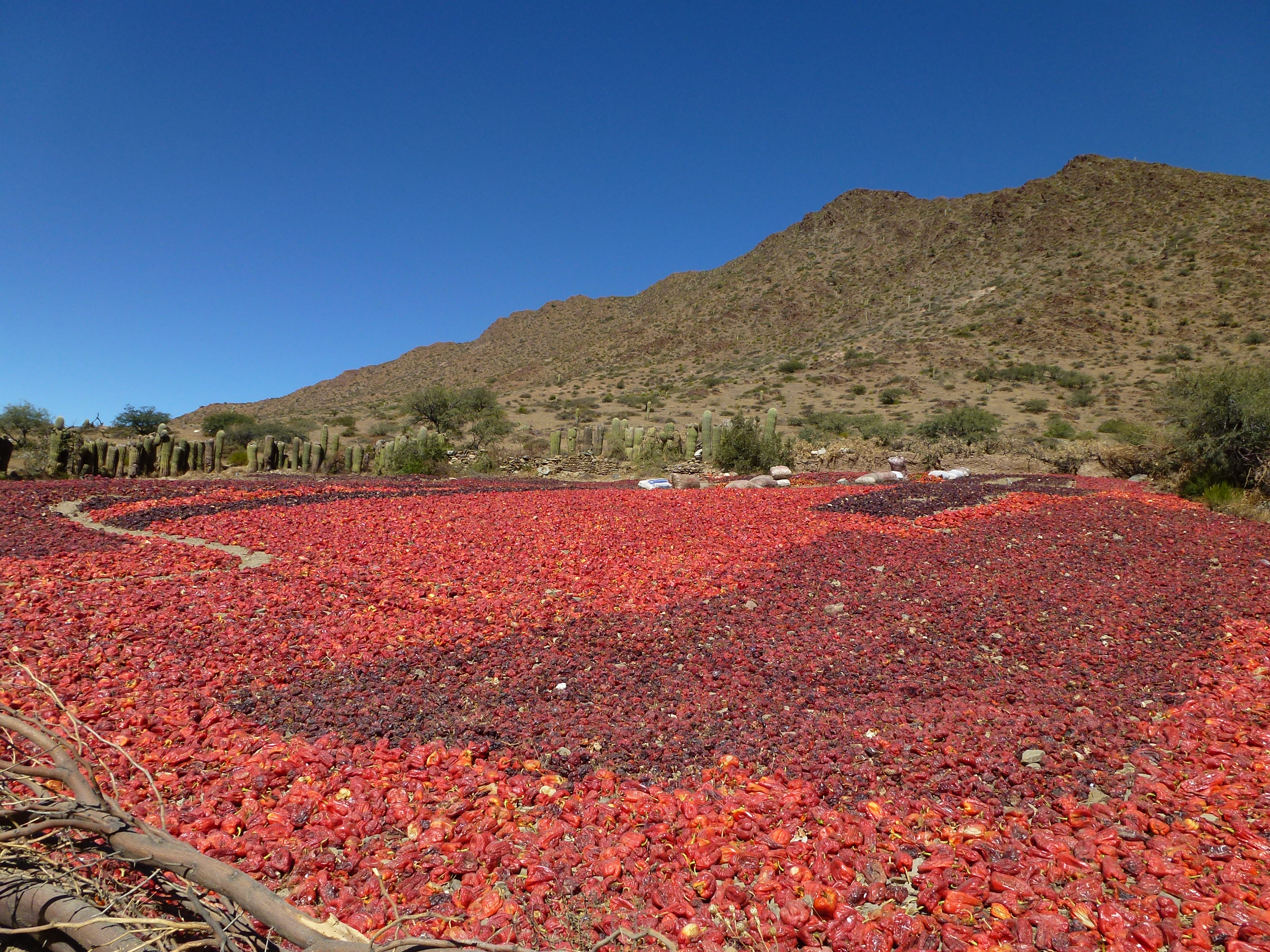 Peppers in Cachi, Salta (Argentina).